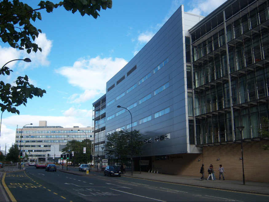 Sheffield Hallam University buildings